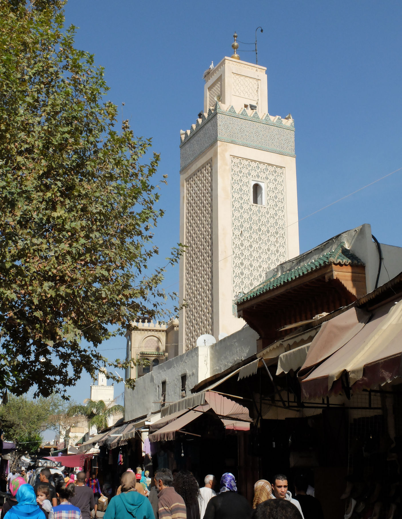 The minaret of the Hamra Mosque along the Grande Rue de Fes Jdid. (The small minaret in the distance is that of the al-Beida or White Mosque.)